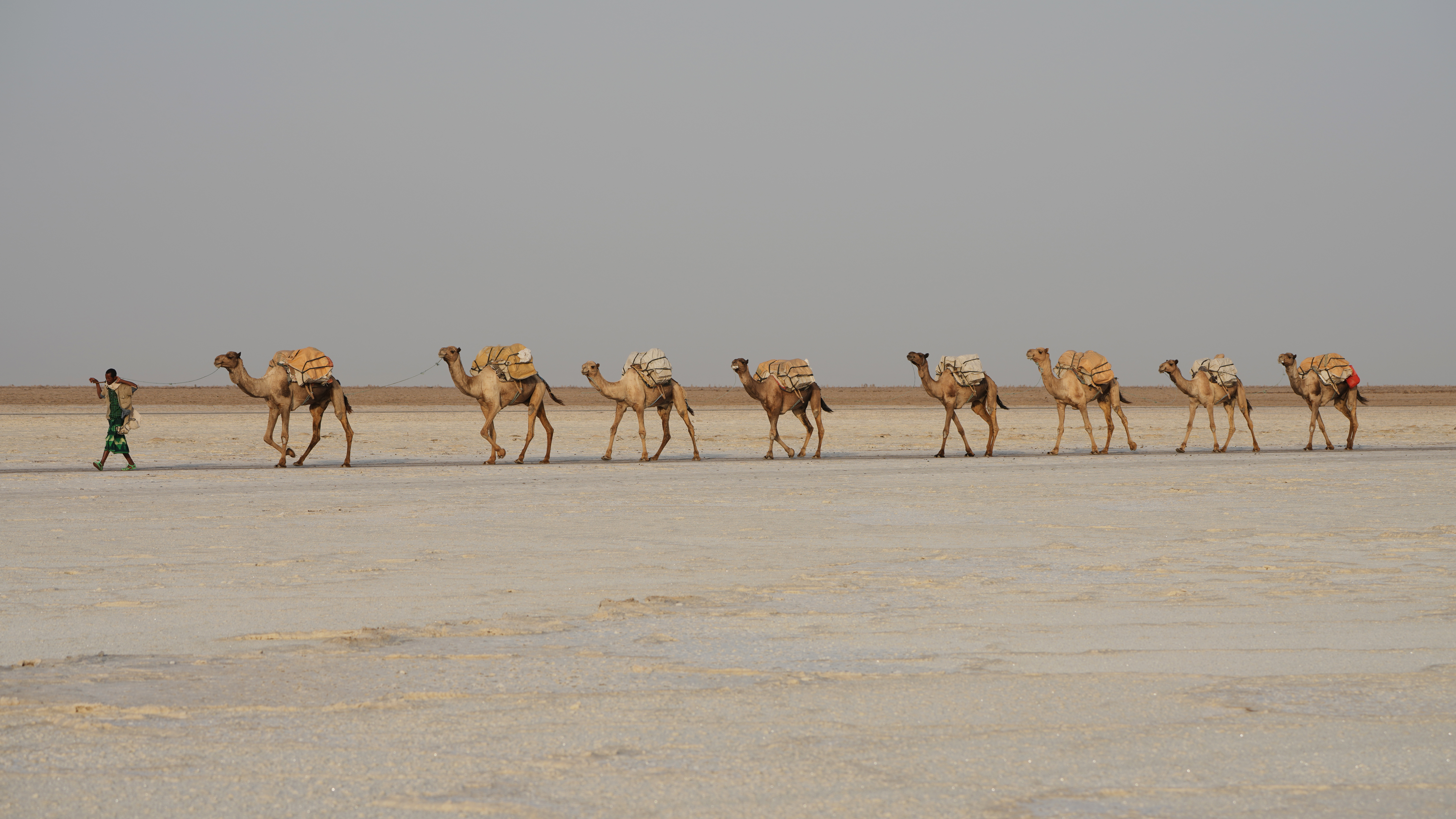 Camel caravan from the salt works – salt desert at Lake Karum, Afar Region, Ethiopia